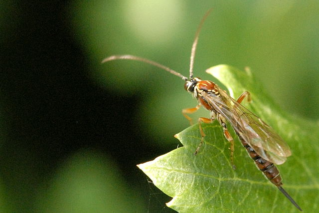 Tromatobia lineatoria from Commanster, Belgian High Ardennes .